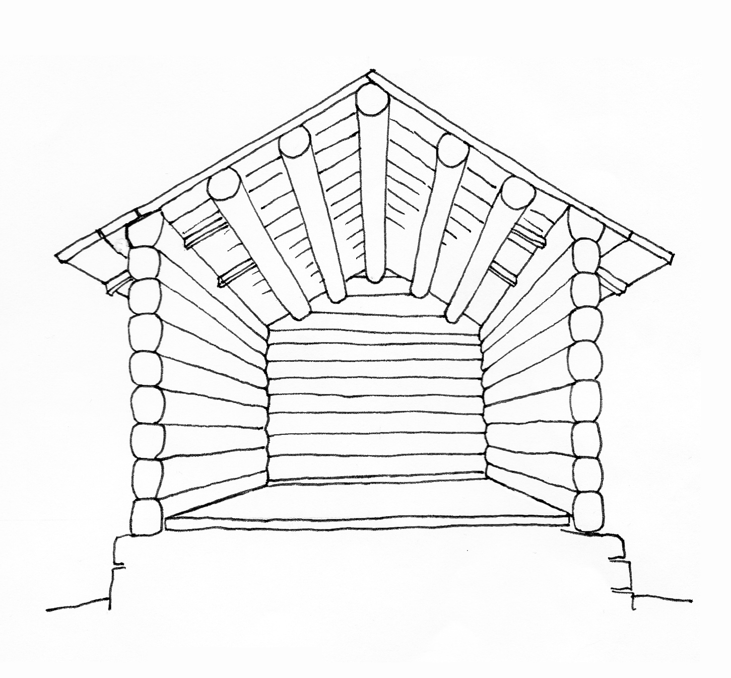 Section of a log building with purlin roof.